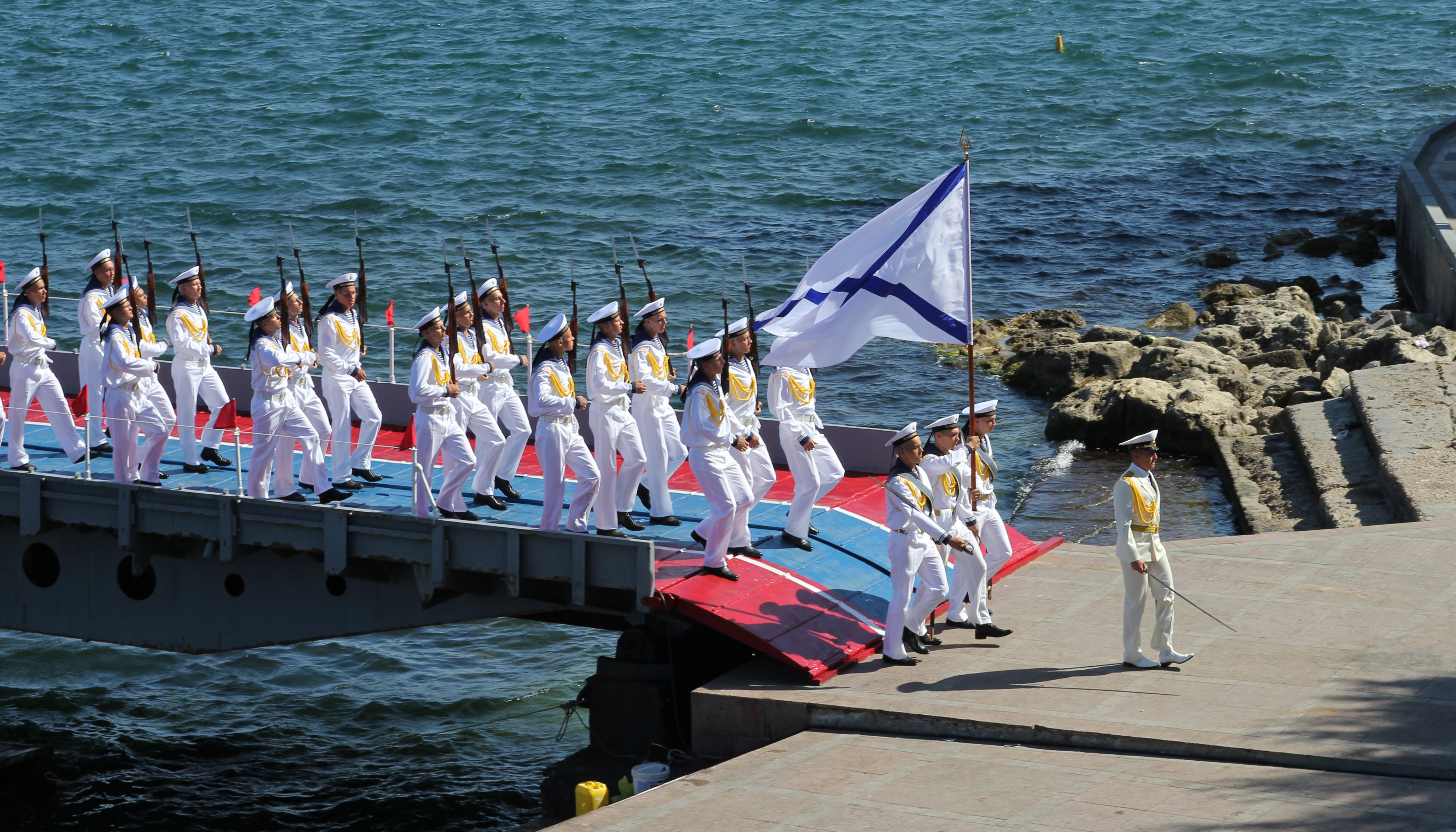 Joint celebration of The Navy Day in Russia and Ukraine. Russian Naval Standard-bearers. Sevastopol bay. Dress rehearsal.